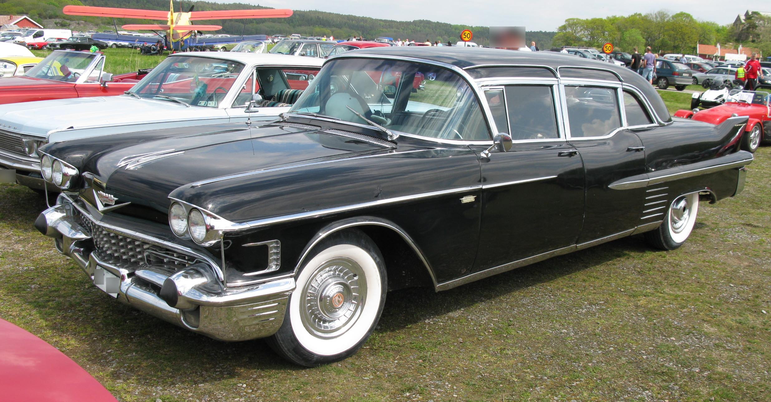 1958 Cadillac Series 75.Event: Tjolöholm Classic Motor 2012.